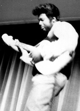 American blues guitarist and singer Otis Rush in France